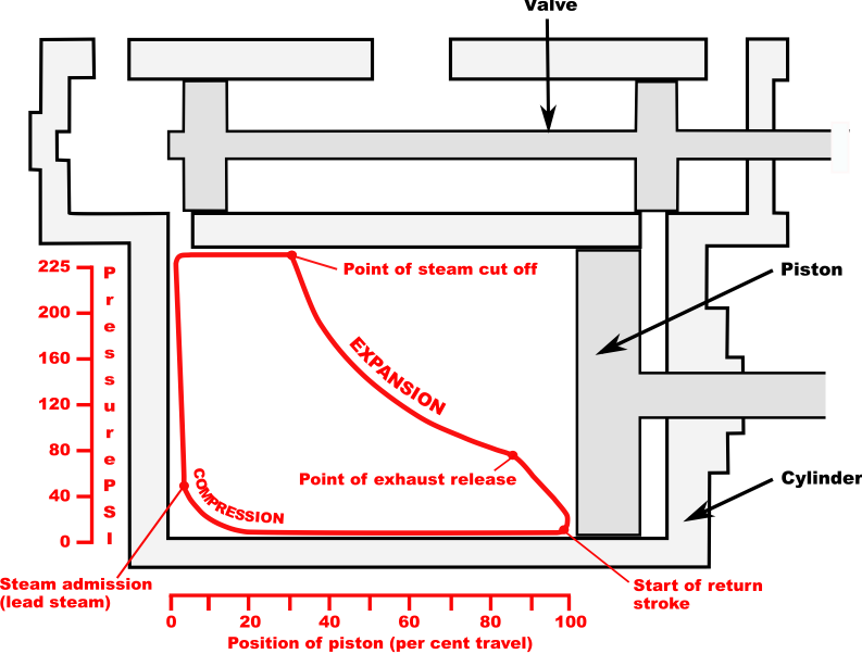 Drawn by uploader using Inkscape. Figures from Handbook for Railway Steam Locomotive Engineman (1957) London: British Transport Commission, page 81.